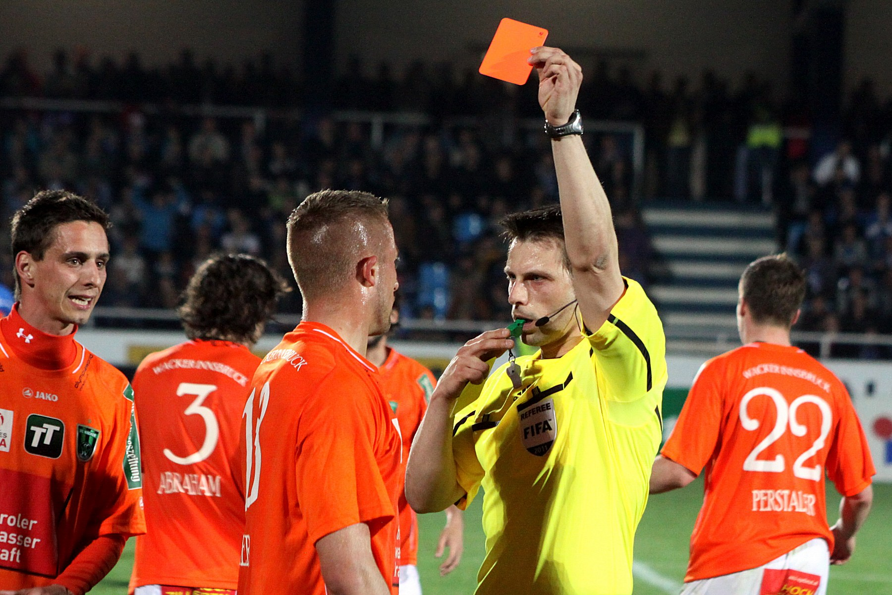 Gerhard Grobelnik, Referee of Austria